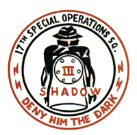 Emblem of the 17th Special Operations Squadron in Vietnam Color version